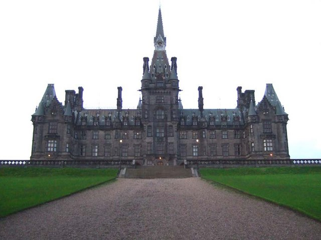 Fettes College One of the private schools in Edinburgh. Fees are reasonable but you might have to forego the occasional six week cruise.